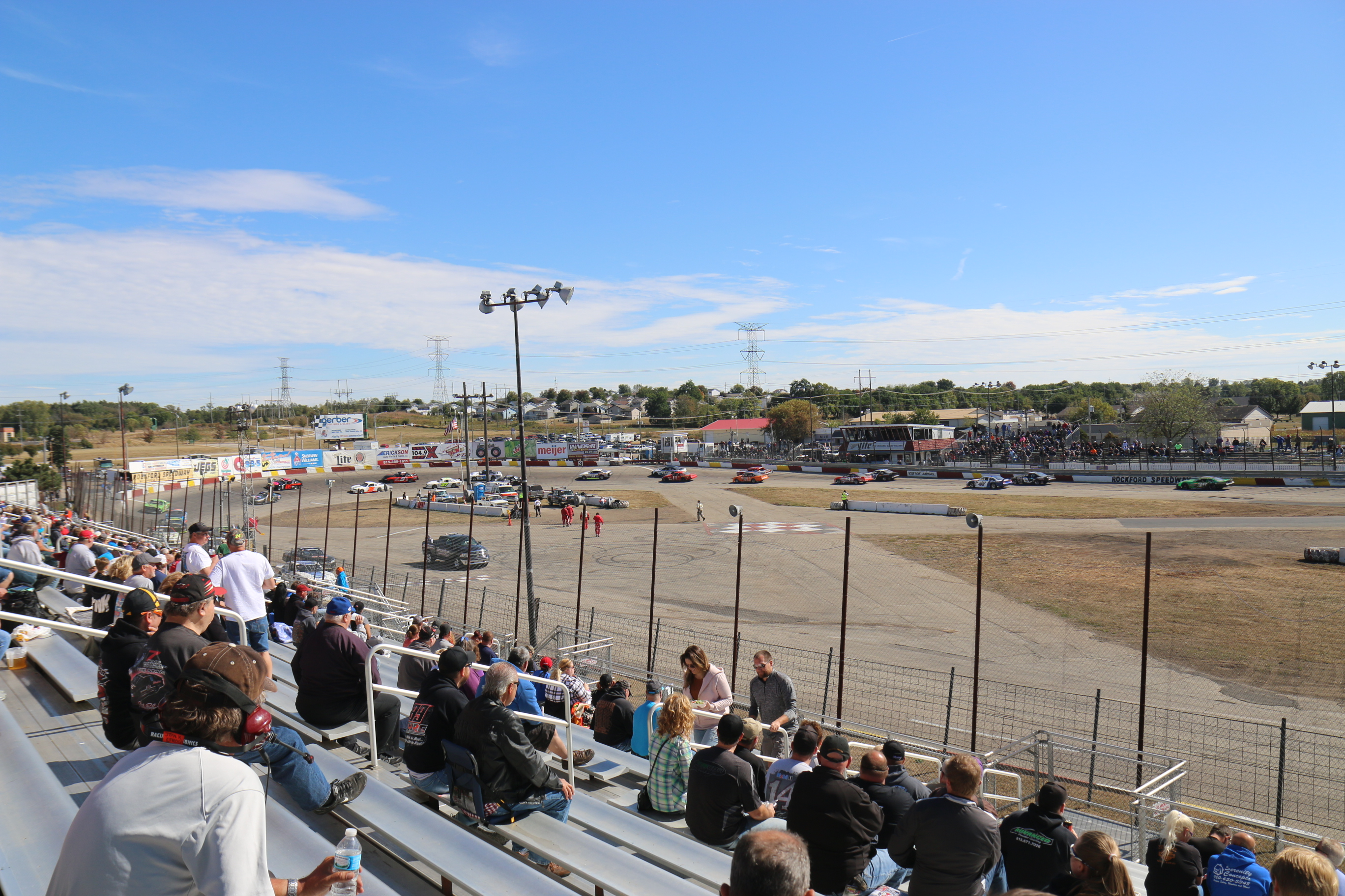 Mid American Stock Car Series cars on Turns 3 and 4 at Rockford Speedway during the National Short Track championship